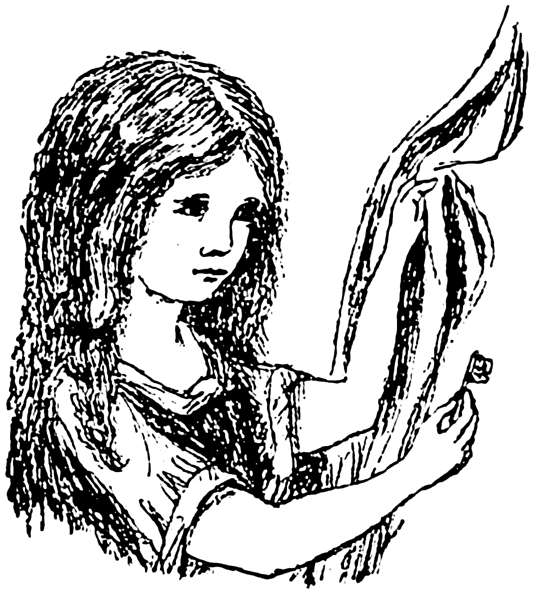 Illustration from page 6